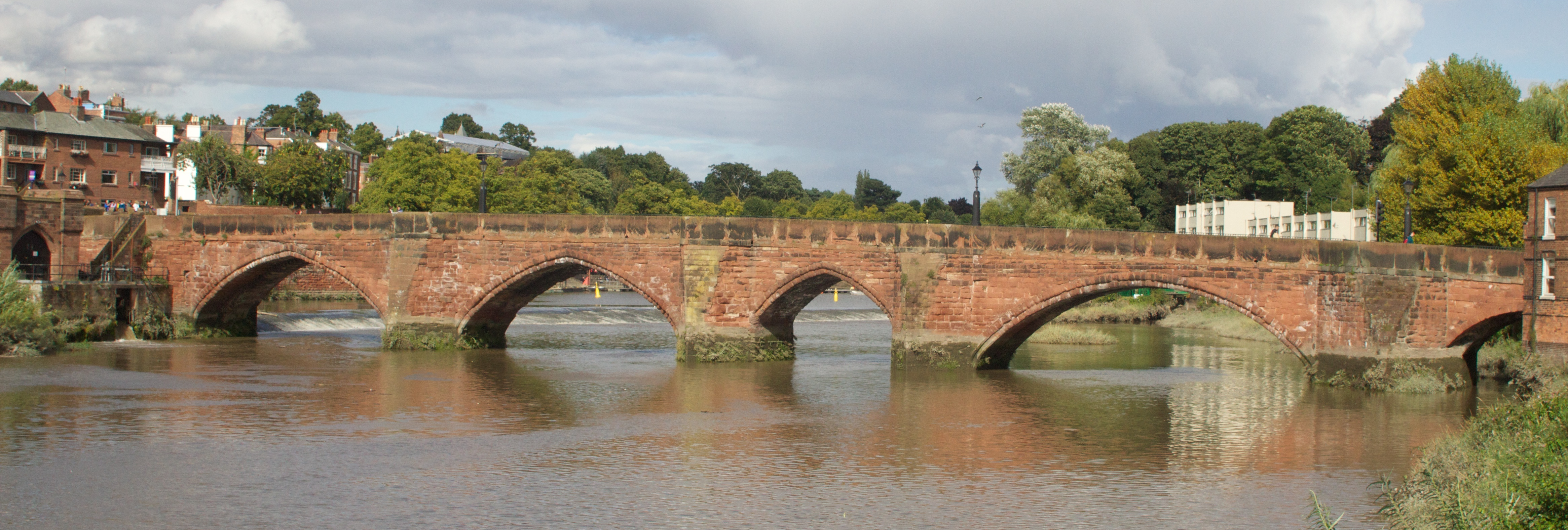 Old Dee Bridge viewed from the south south-west